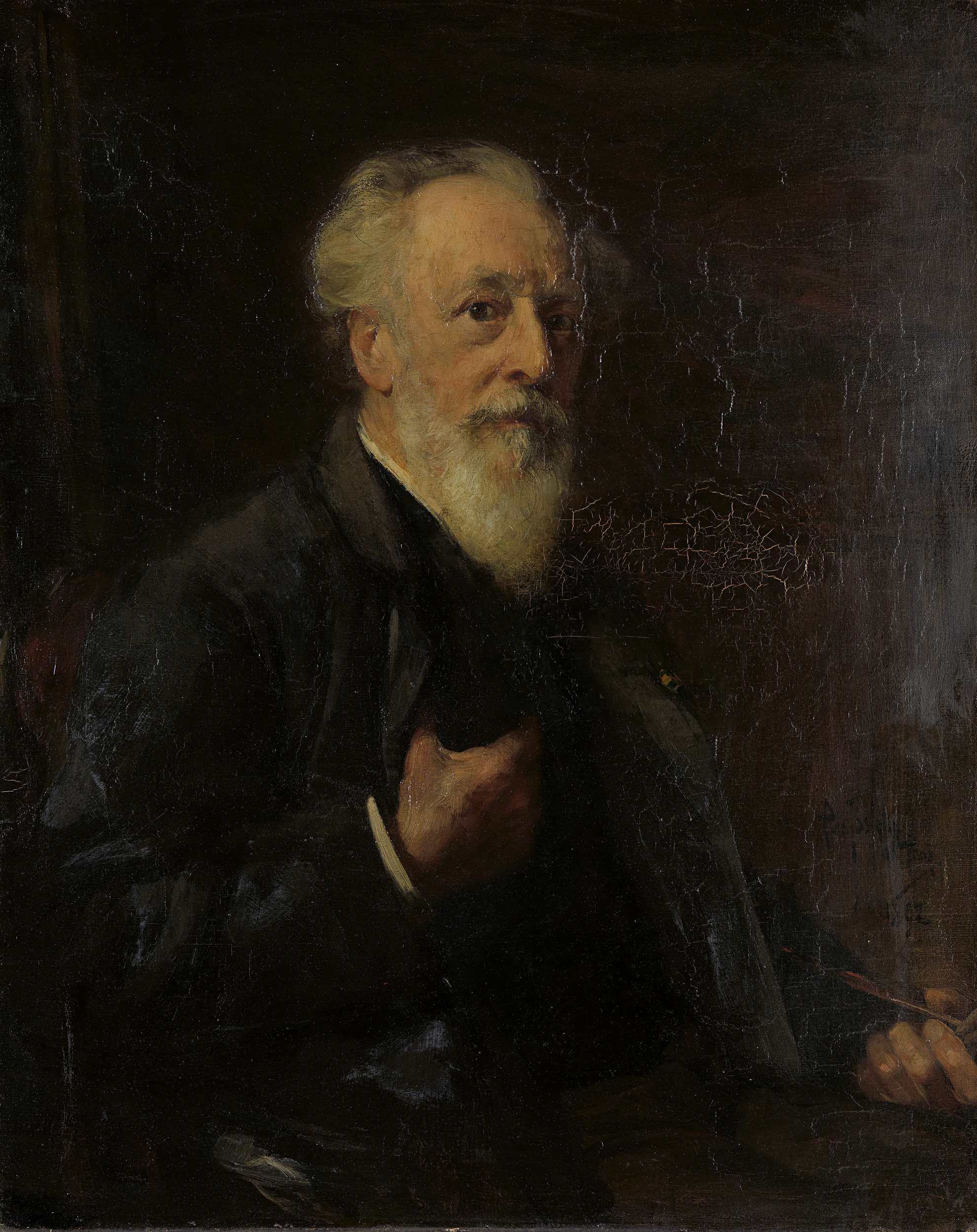 Portrait of JAB Stroebel